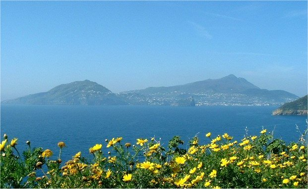 Views of Ischia from Procida - photo by Romina and utente:Retaggio